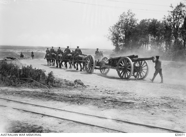 AWM caption : "France c. June 1916. Unidentified members of a transport unit and their ten horses pulling a 60 pounder British field gun on a limber. They are taking the gun forward to get within range of the enemy. Light railway tracks are visible in the foreground."